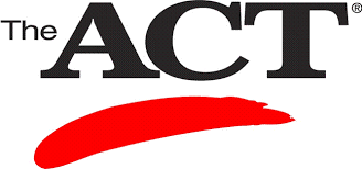 acta,american,test